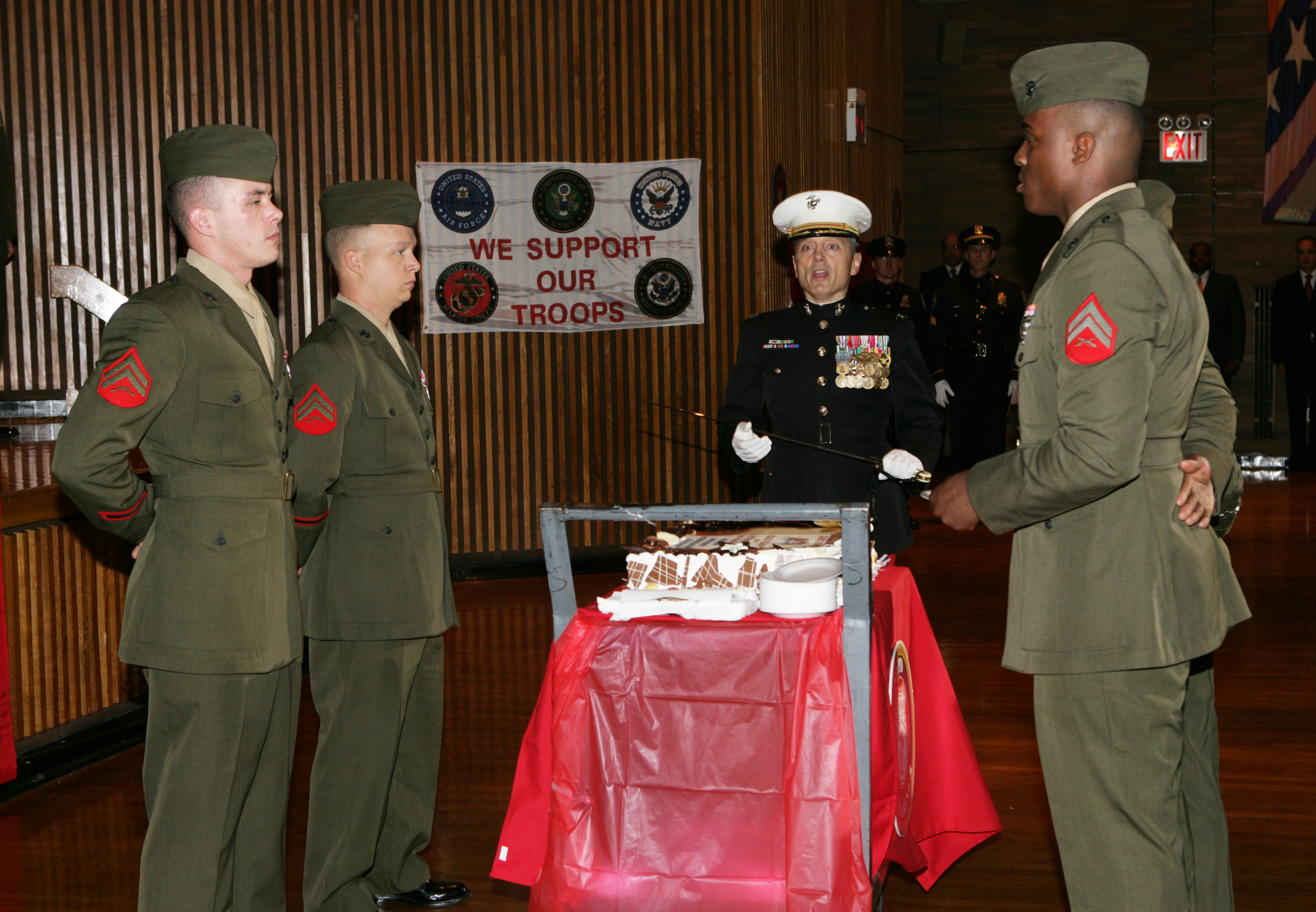 Col. Matthew F. Bogdanos calls the oldest Marine present forward for the first piece of birthday cake during the New York Police Department Marines Corps Association's celebration of the 233rd birthday of the Marine Corps Nov. 7, 2008, at 1 Police Plaza in New York. Marines from the 22nd Marine Expeditionary Unit were in New York to provide support for Veterans Day and the re-opening of the Intrepid Sea, Air and Space Museum. (Official Marine Corps photos by Cpl. Theodore W. Ritchie)